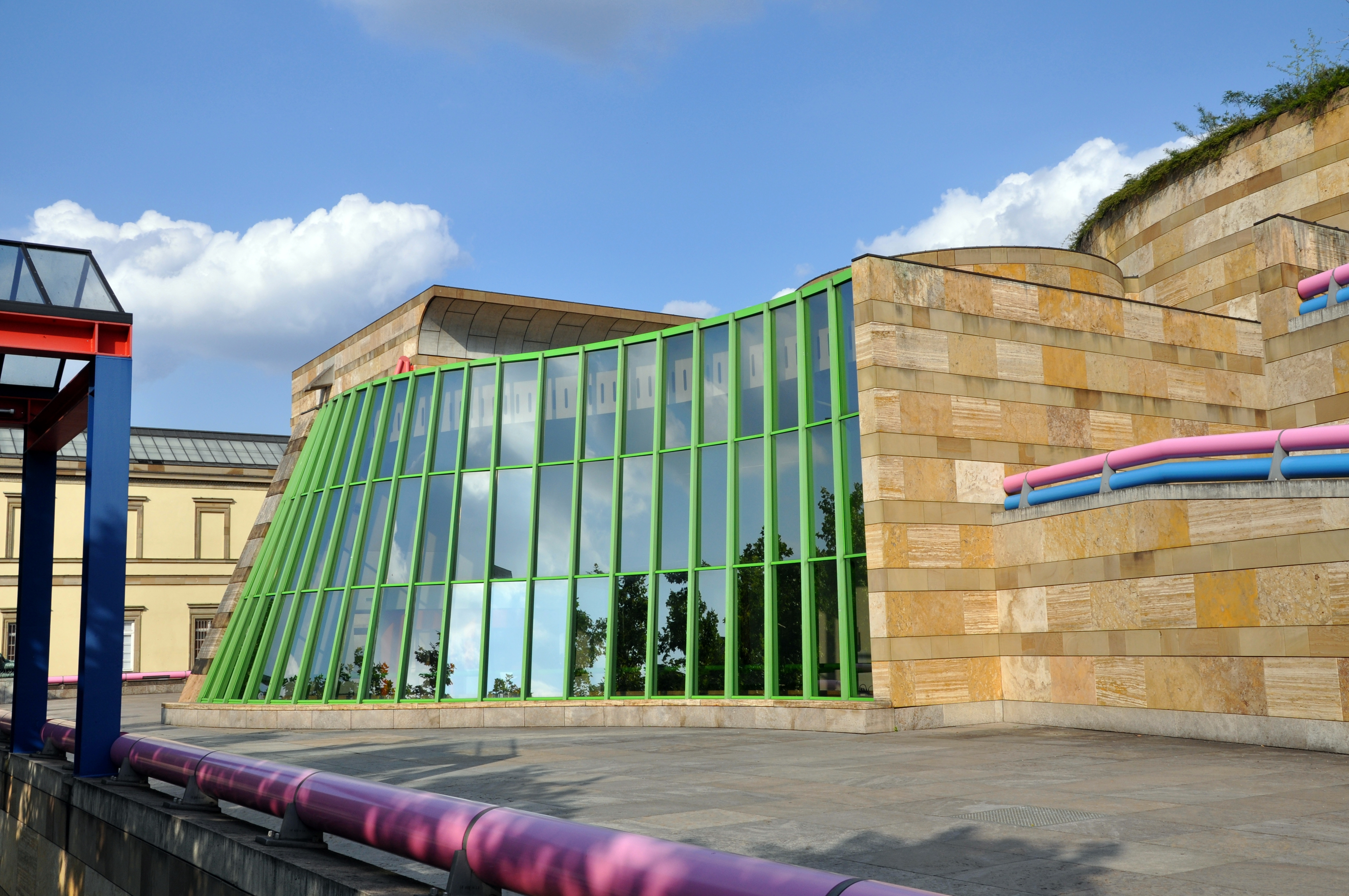 Neue Staatsgalerie (Modern art State Gallery)